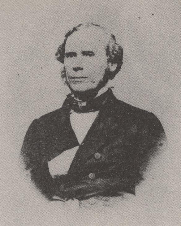 João Lins Vieira Cansanção de Sinimbu, Viscount of Sinimbu, 1878.